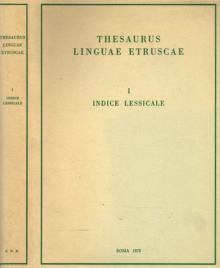 Massimo Pallottino, Thesaurus Linguae Etruscae, 1978, Roma.